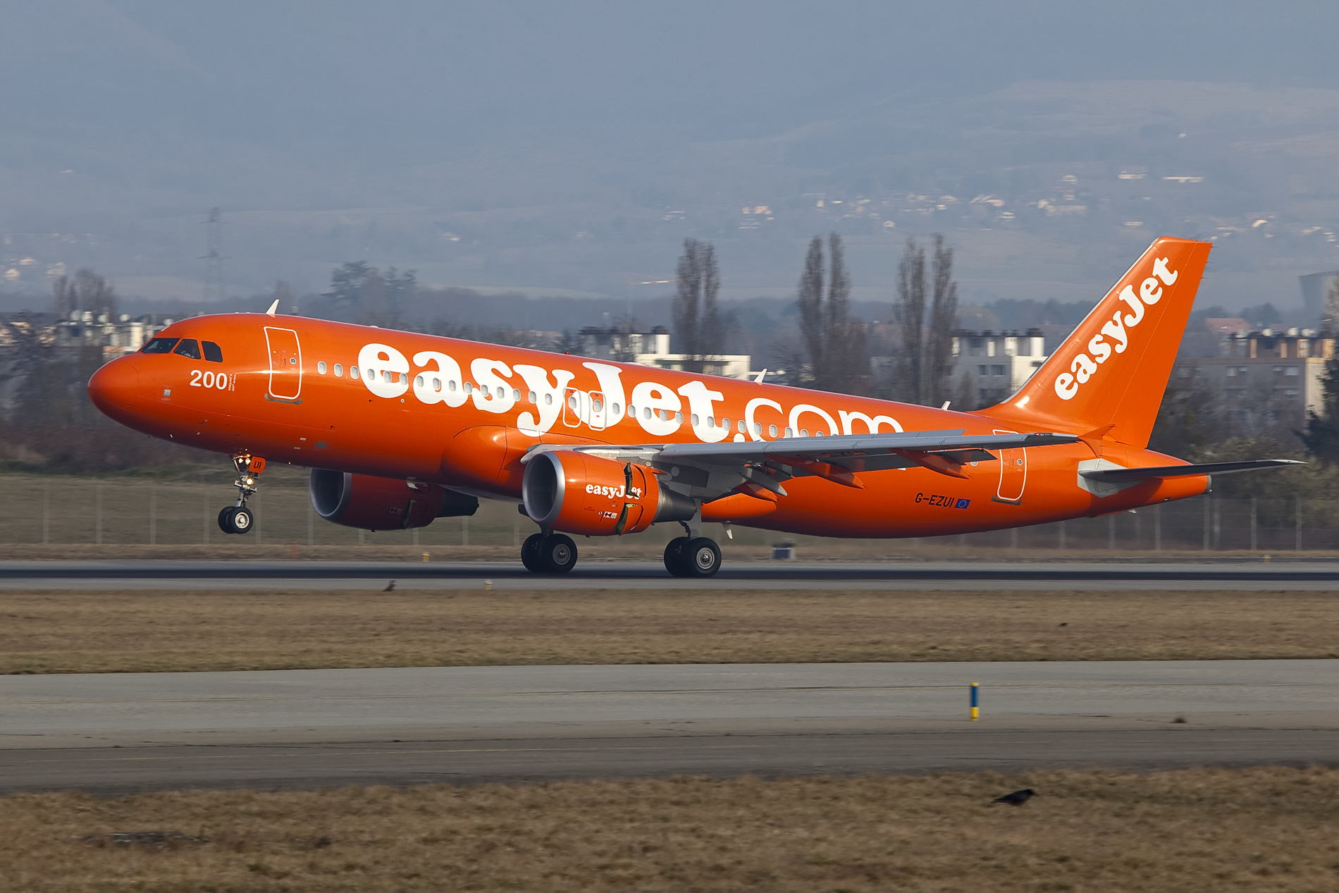 Airbus A320 of easyJet at Geneva International Airport